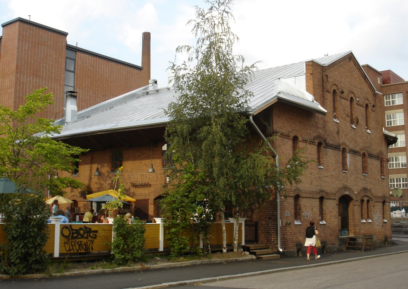 The Restaurant-Theatre-Gallery House Telakka in Tampere